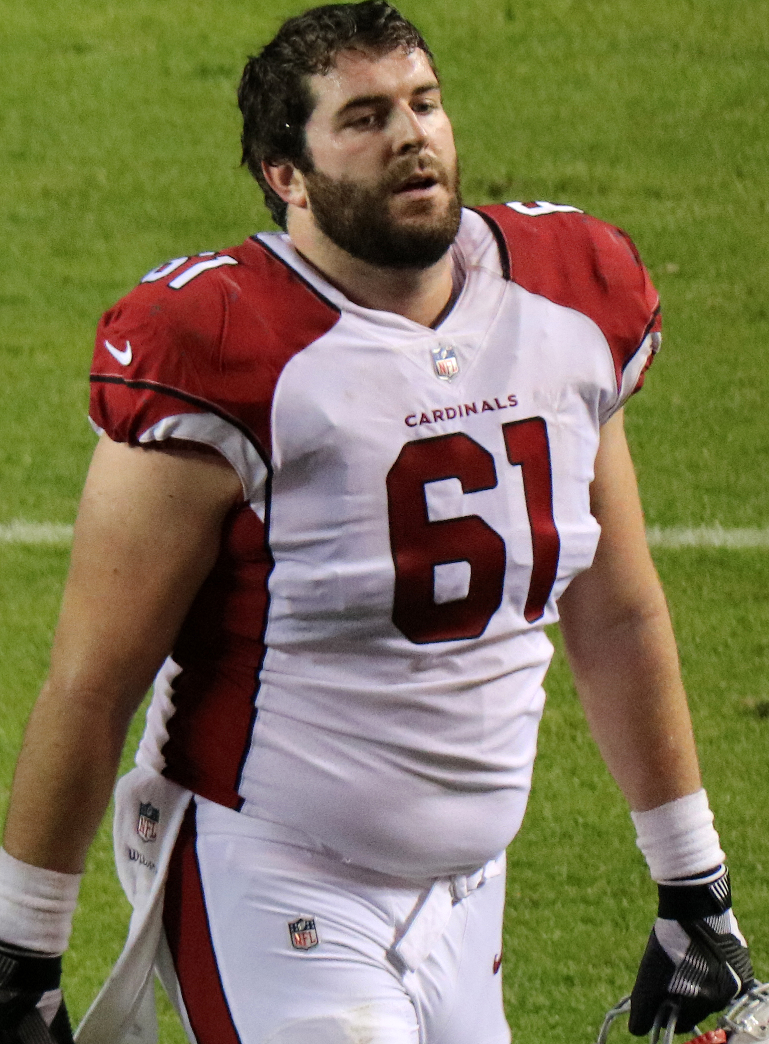 Cole Toner, a player on the National Football League.